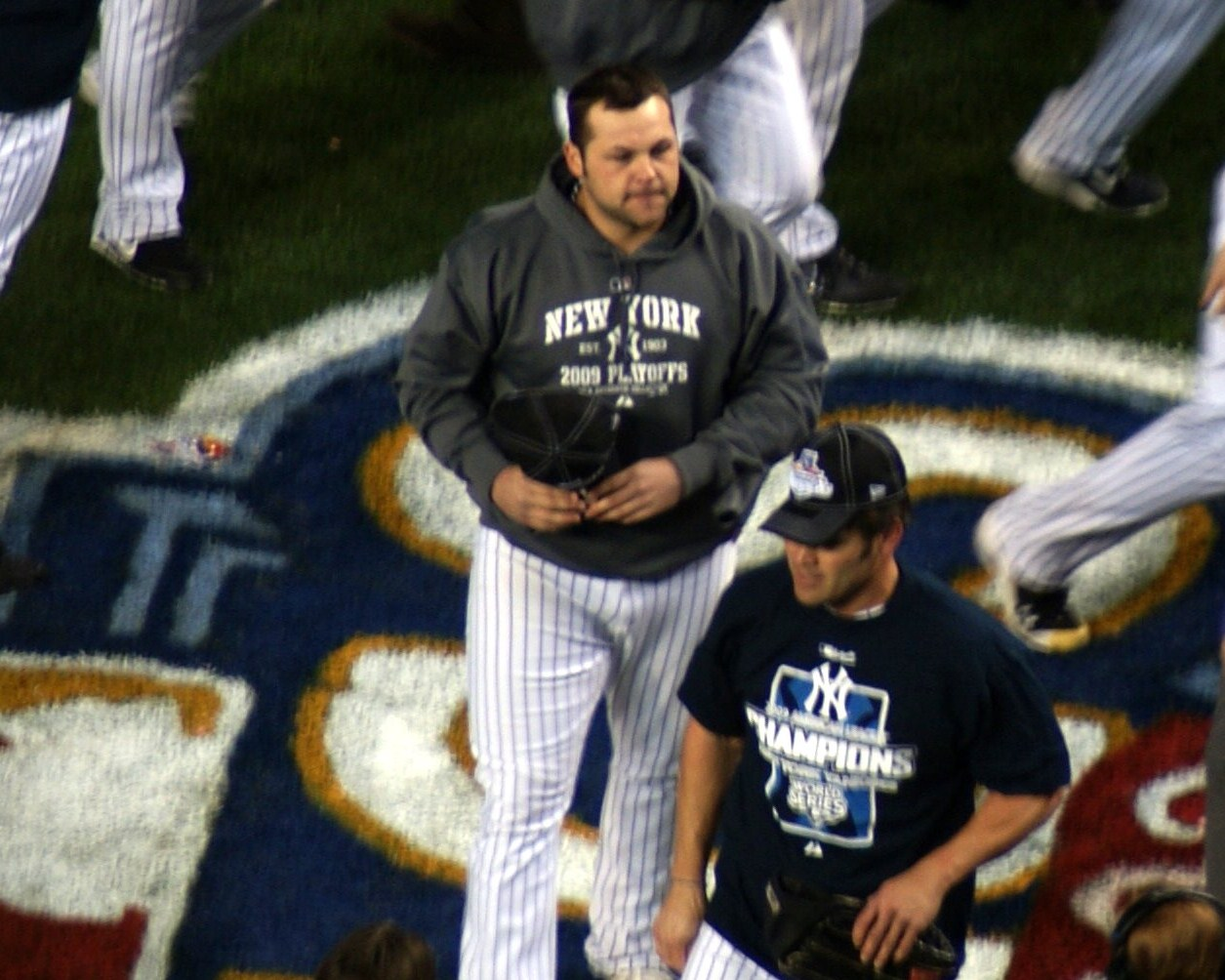 Joba Chamberlain after the game of the 2009 American League Championship Series Game 6.